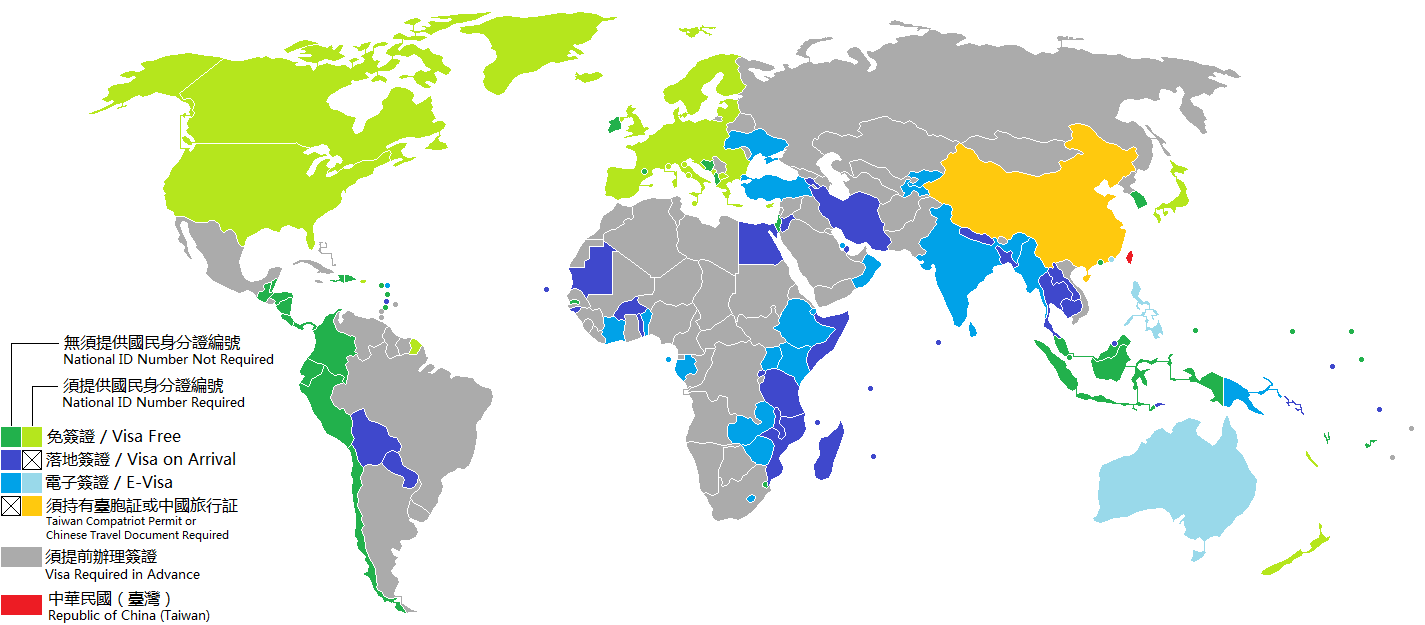 Update